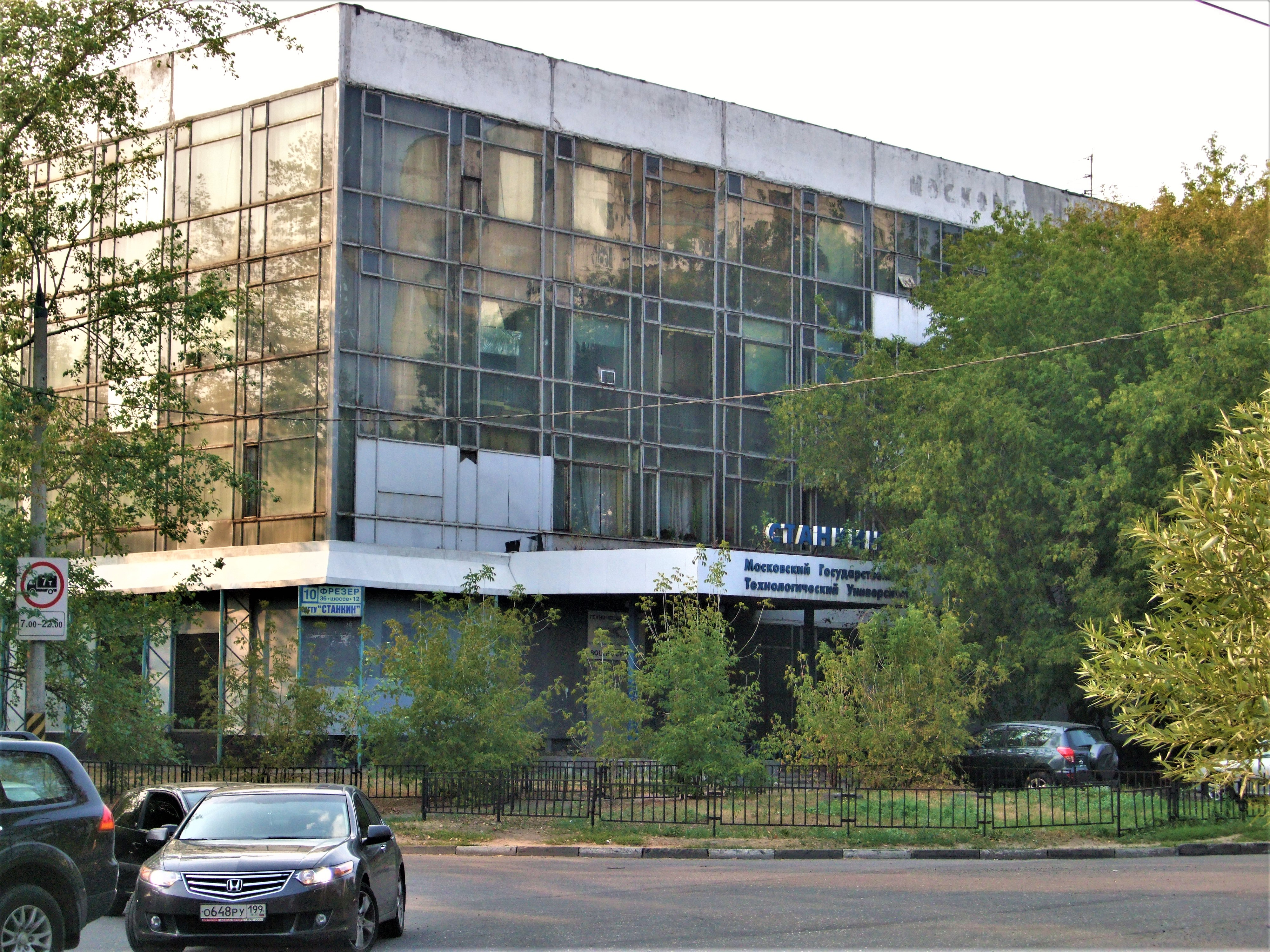 One of buildings of the Stankin university (Moscow city, shosse Frezer)